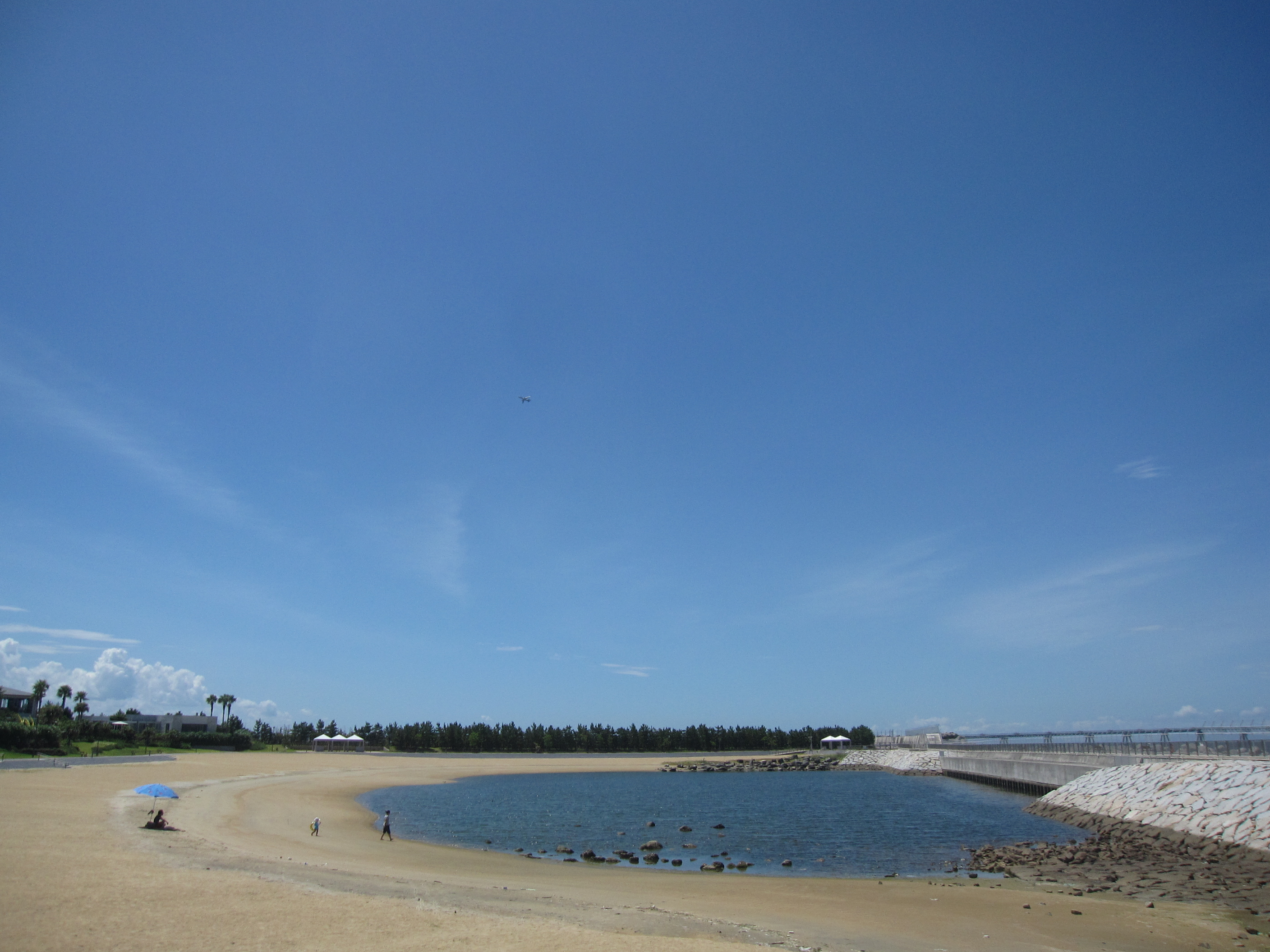 神戸空港西緑地 Kobe Airport Lagoon